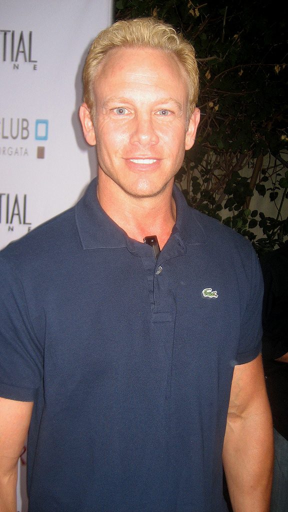 American Actor Ian Ziering attending L.A. Confidential/Belvedere/Water Club/Sapporo Emmy Party